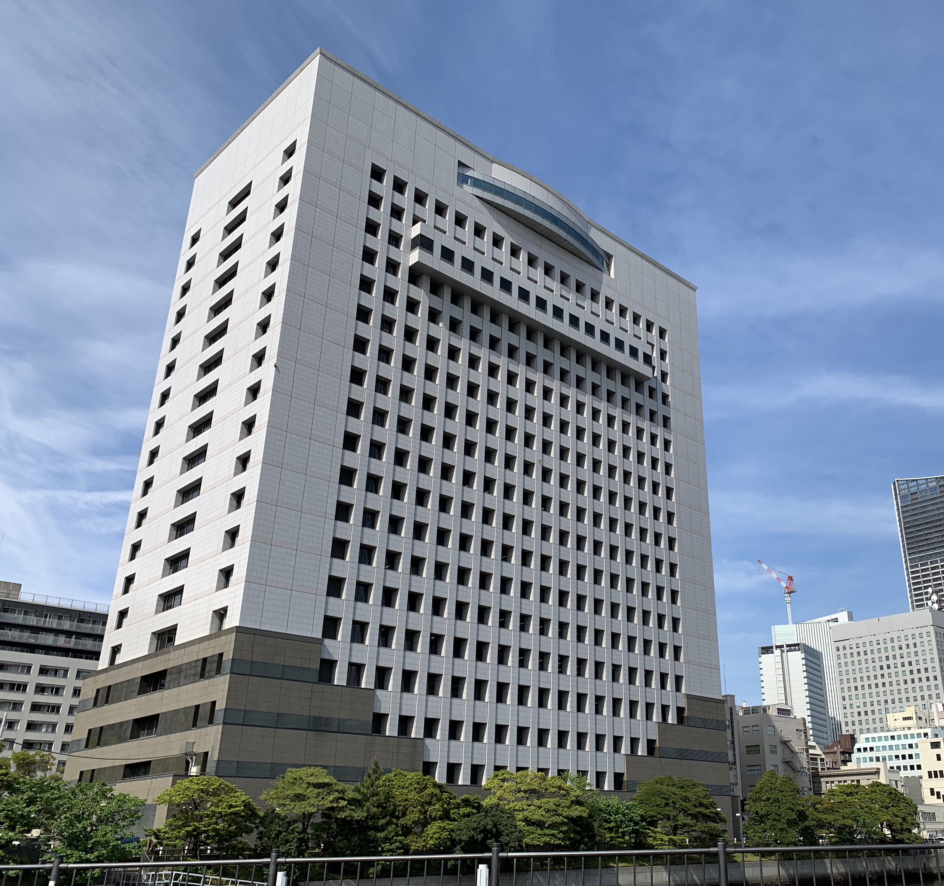 2019年5月3日午前8時35分撮影